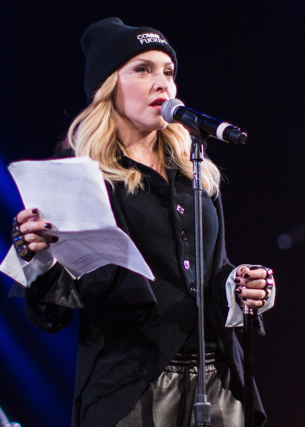 Madonna delivers a speech at the "Bringing Human Rights Home" concert organized by Amnesty International in New York City on February 5, 2014